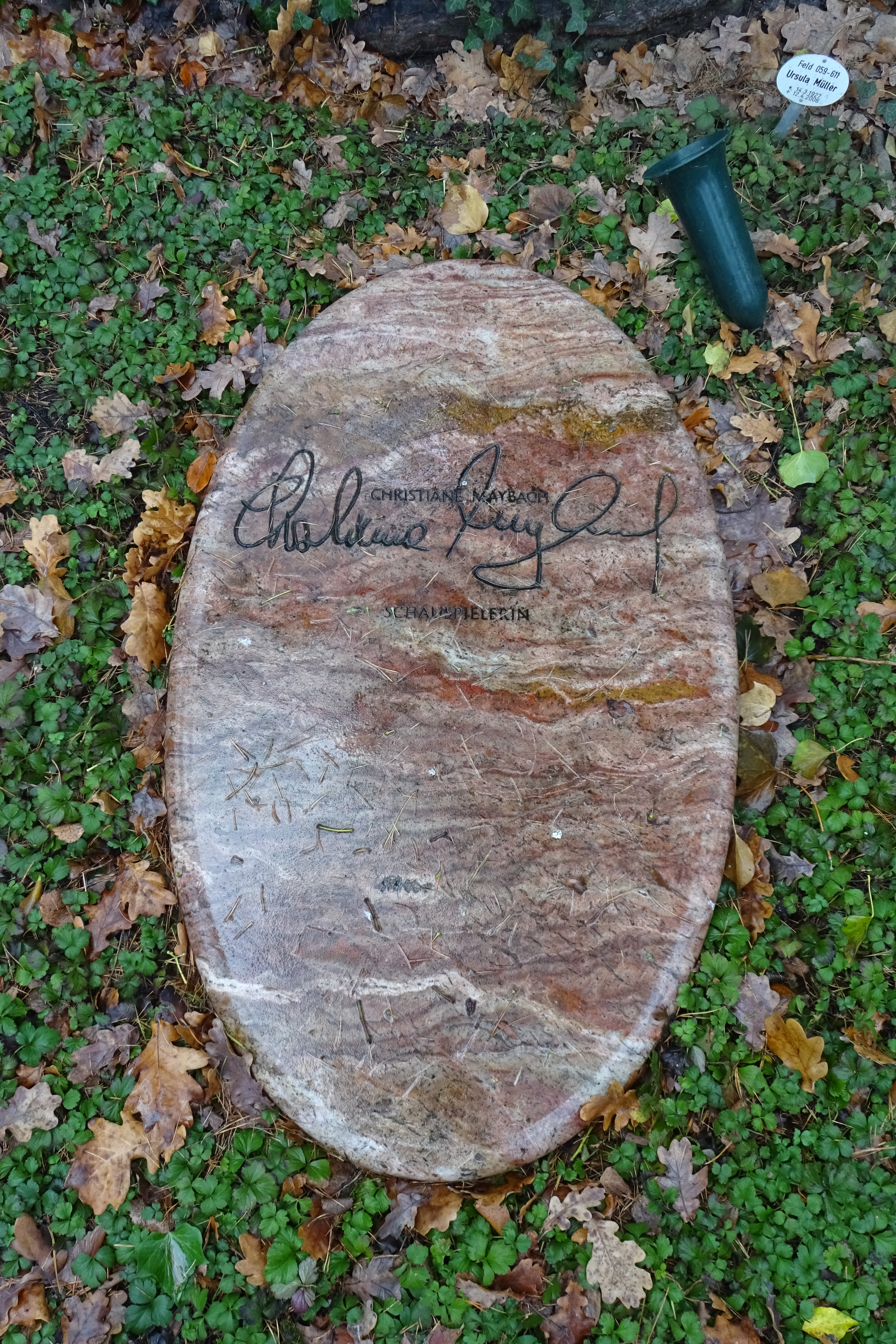 Grave of German actress Christiane Maybach (Ursula Müller) in Waldfriedhof Zehlendorf in Berlin